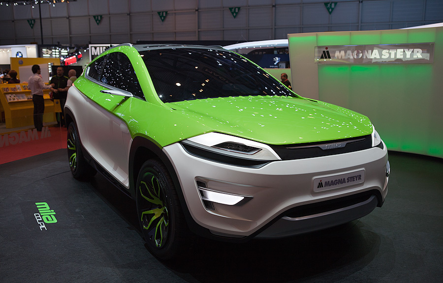 Motorshow Geneva 2012